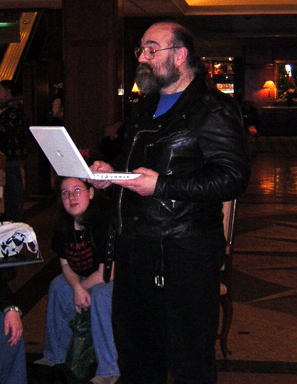 Showing the family how it's done.